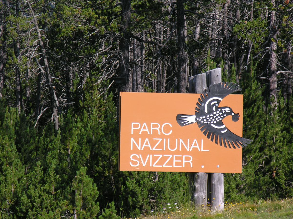 Swiss National Park